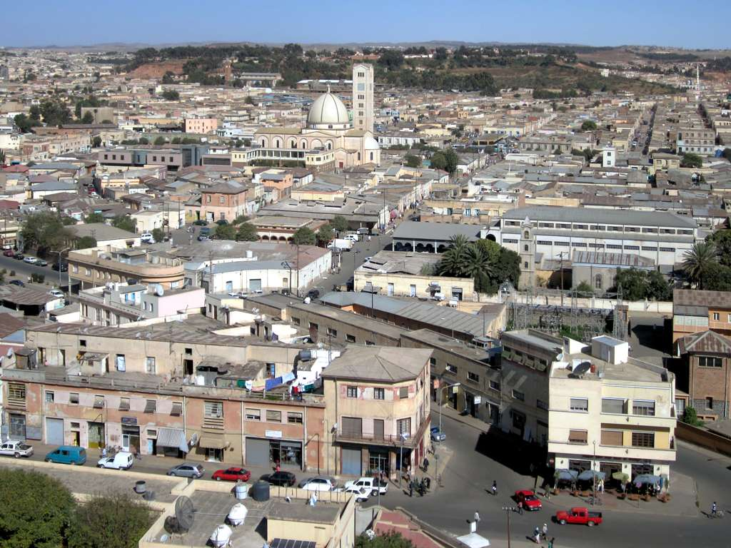 Looking north across Asmara, Eritrea, from the tower of the Catholic Cathedral. The dome of Kidane Mihret Church rises beyond the market area.